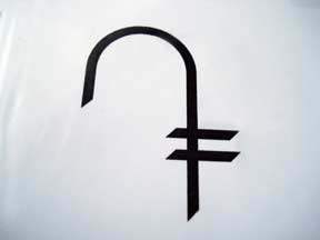 Dram sign shape proposed for CBA contest